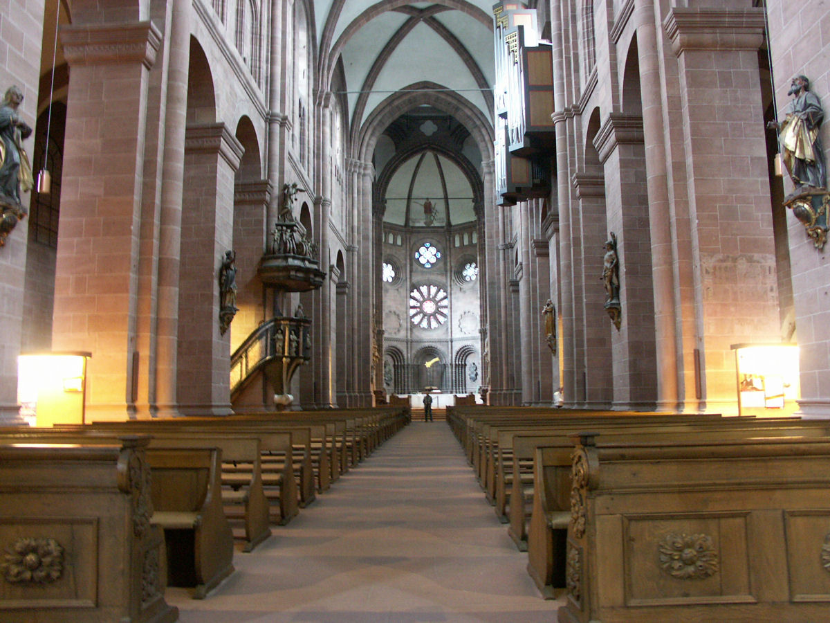 Cathedral St. Peter (Dom St. Peter), Worms, Germany